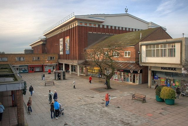 Newton Aycliffe Town Centre A sixties new town, all due to be redeveloped.